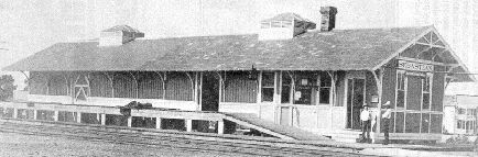 Florida East Coast Railroad Station in Sebastian, Florida. This structure is believed to be the original, which was built in 1893. img URL